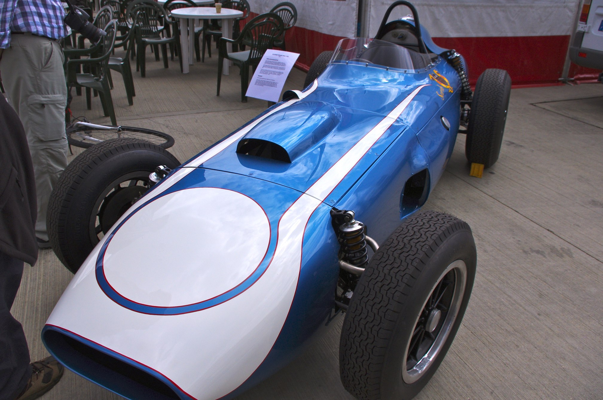 Silverstone Classic 2011